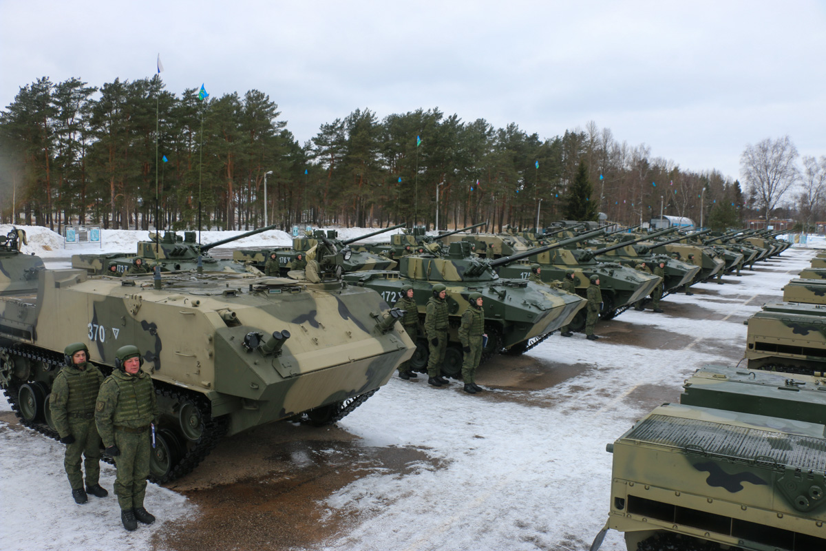 104th Guards Air Assault Regiment.